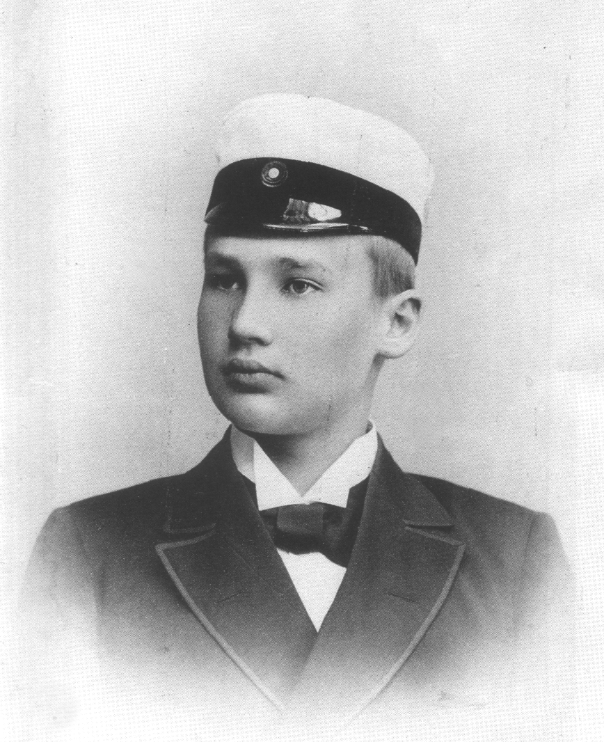 Ivar Kreuger as a 'Student' (graduated from gymnasium) at the age of 16.